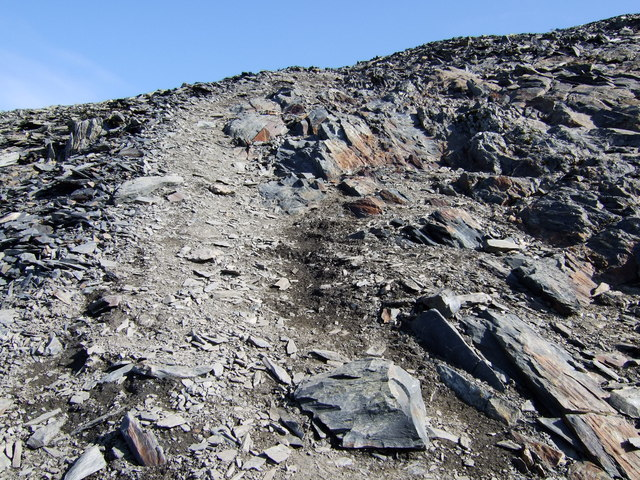 Path up Skiddaw from Carl Side